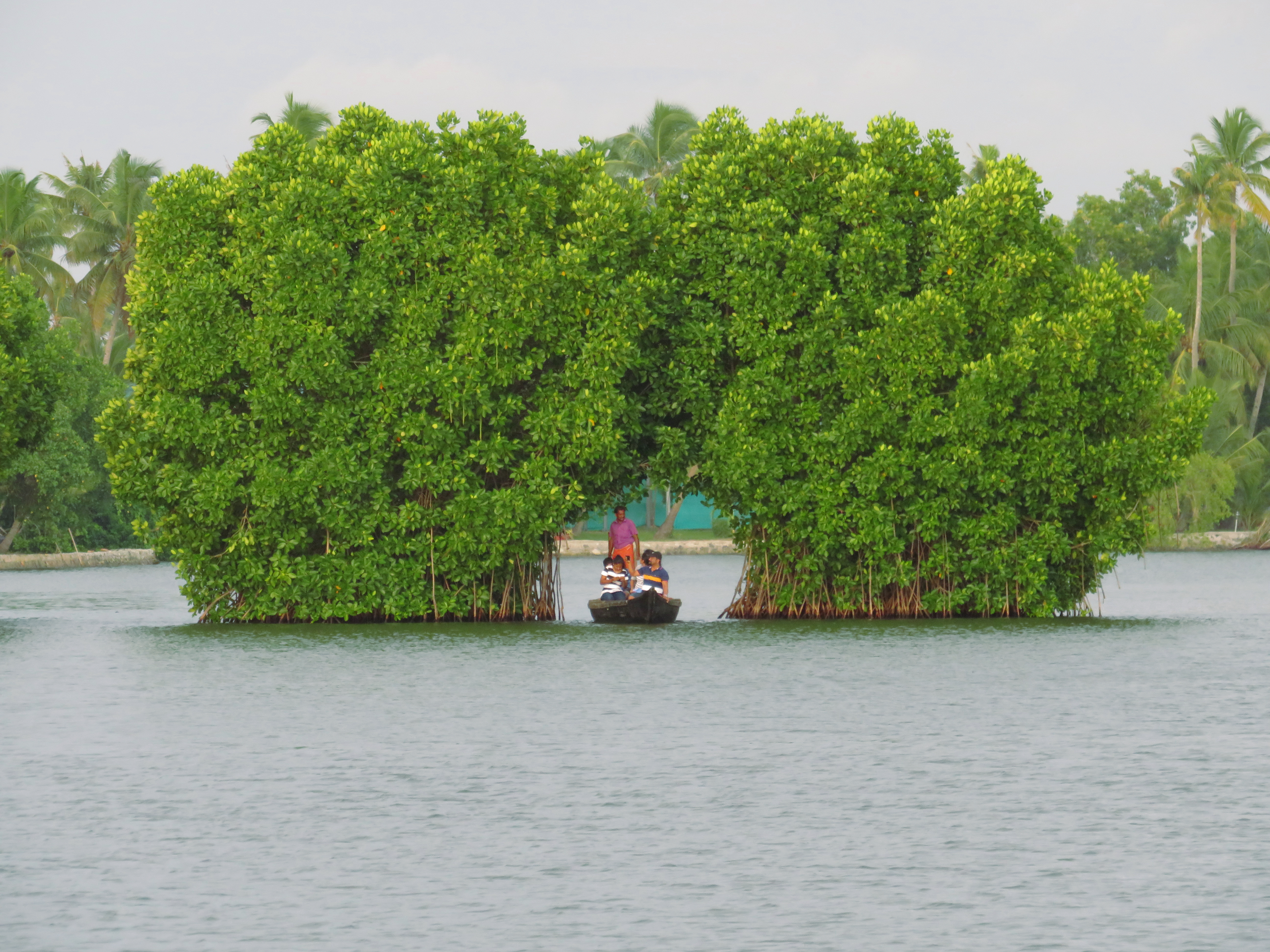 Tourits exlporing the Beauty of the backwaters in a country boat in Munroe Island.